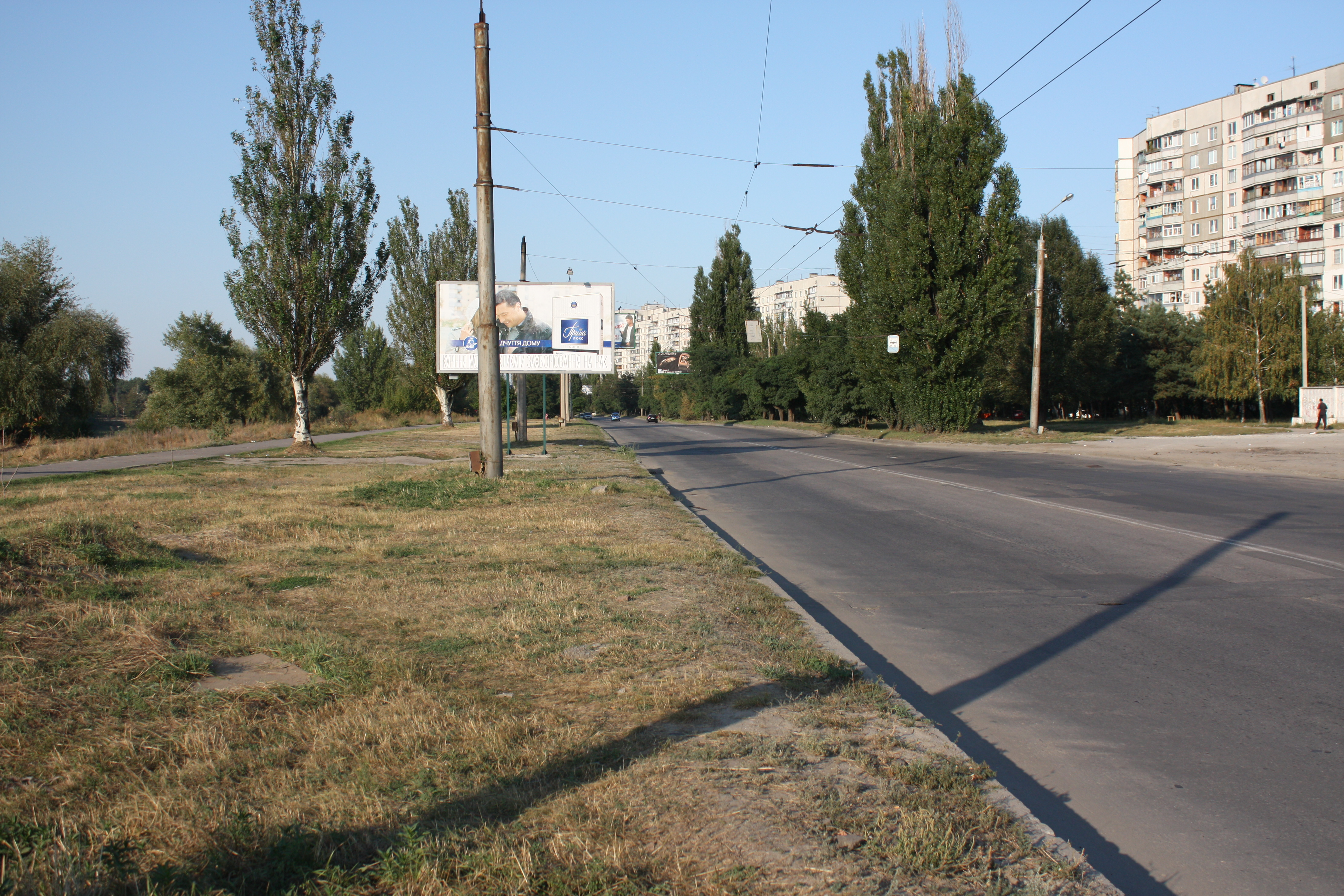 Valentynivska street.